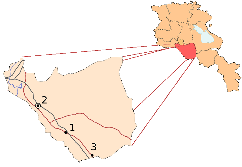 Image shows the location of Ararat in Armenia. Exclaves deleted according to official map at Map Key Ararat Artashat Yeraskh Hrazdan River